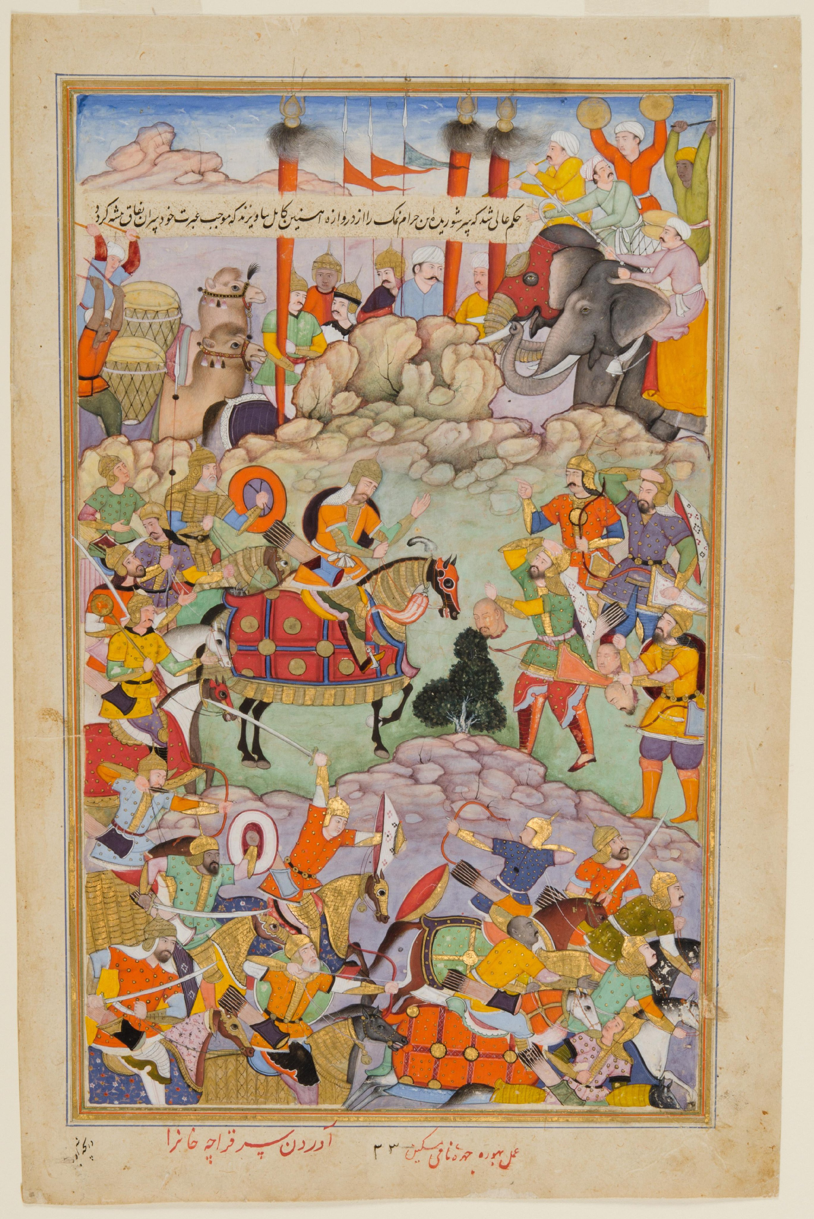 Indian and Himalayan Art Humayun Receives the Head of Qaracha Khan Page from the dispersed manuscript of the first Akbarnama (Narrative of the Emperor Akbar) by Abu'l Fazl Made in Lahore, Punjab Province, Pakistan, Asia c. 1590 Ascribed to Burah, Indian, active 1580 - 1590. Faces ascribed to Miskin, India, active 1582 - 1596. Opaque watercolor and gold on paper 14 1/2 x 10 1/16 inches (36.8 x 25.6 cm) Currently not on view 1947-49-1 Purchased with the George W. B. Taylor Fund, 1947 Label This page, from the first of several illustrated copies of the Akbarnama commissioned by the Emperor Akbar, reveals how artists in the imperial Mughal workshop blended indigenous Indian and Persian painting traditions. Indian features include the use of bold colors, dramatic poses, and substantial bodies. Persian characteristics include the modulated colors, fleshlike rocks, forward-tilting picture plane, and faces in smooth three-quarter profile. Rather than being placed as a caption at the top or back of the page, as in works done for Hindu patrons of the time, the rectangle of text is placed in the middle of the composition following Persian tradition.